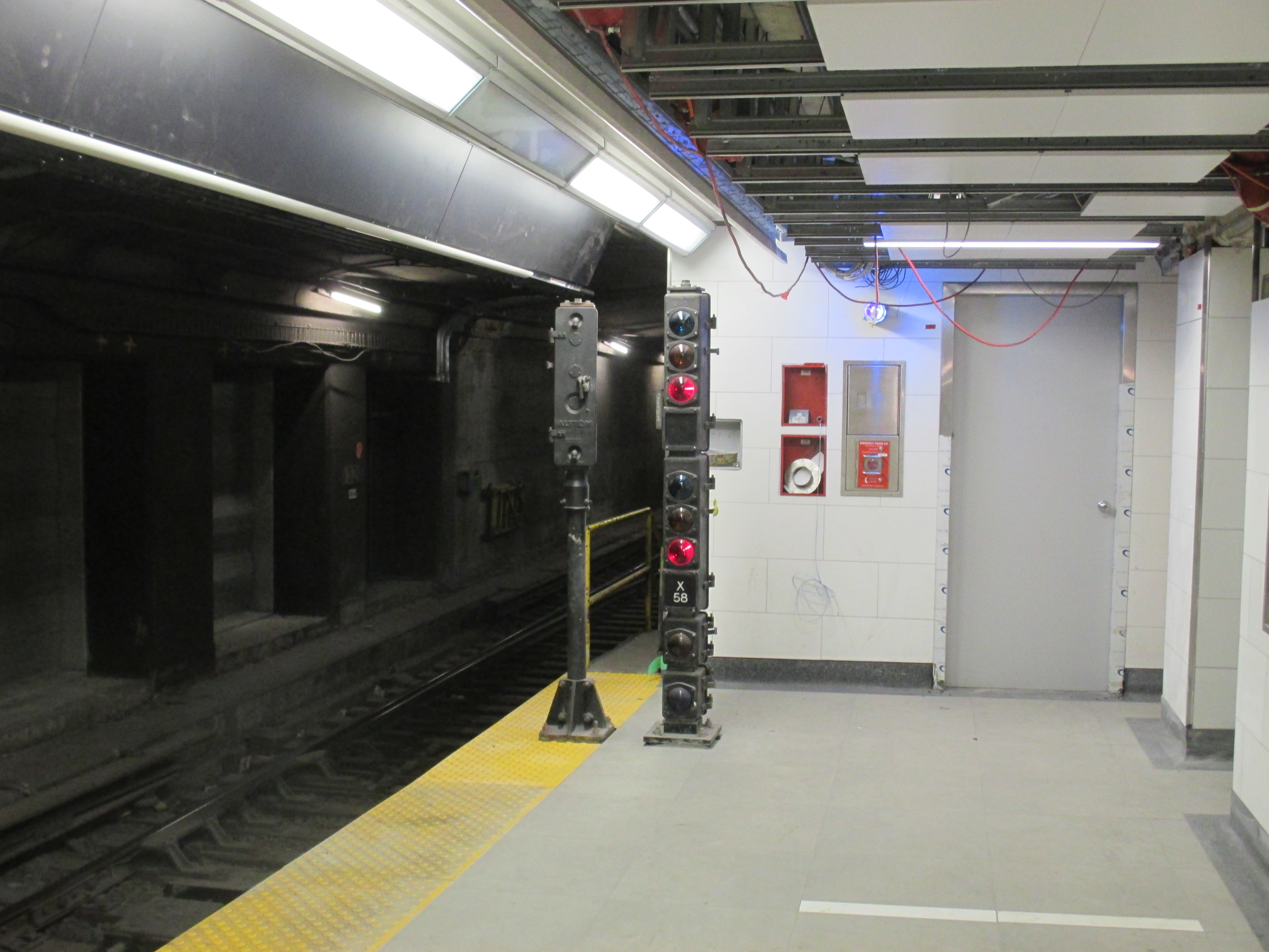 Union Station interlocking signal located at the east end of the University line platform to protect the crossover to the northbound Yonge Line..